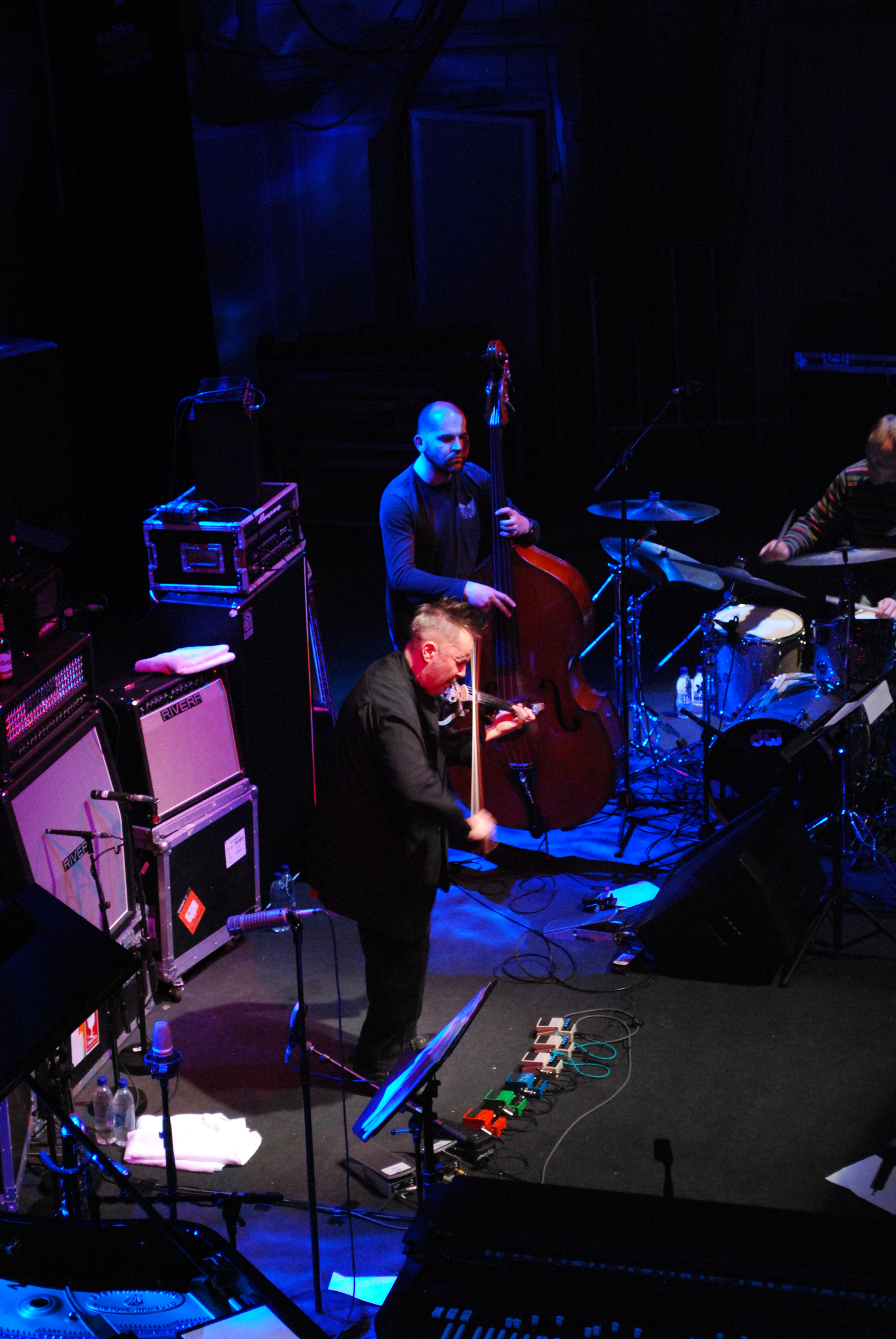 Nigel Kennedy on stage at Cheltenham Jazz Festival, 2009-05-04.